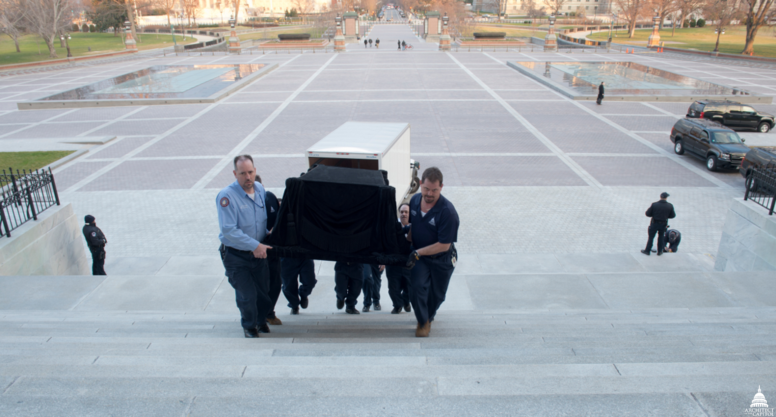 AOC employees carry the Lincoln catafalque into the Capitol in preparation for Lying in State of Senator Inouye.